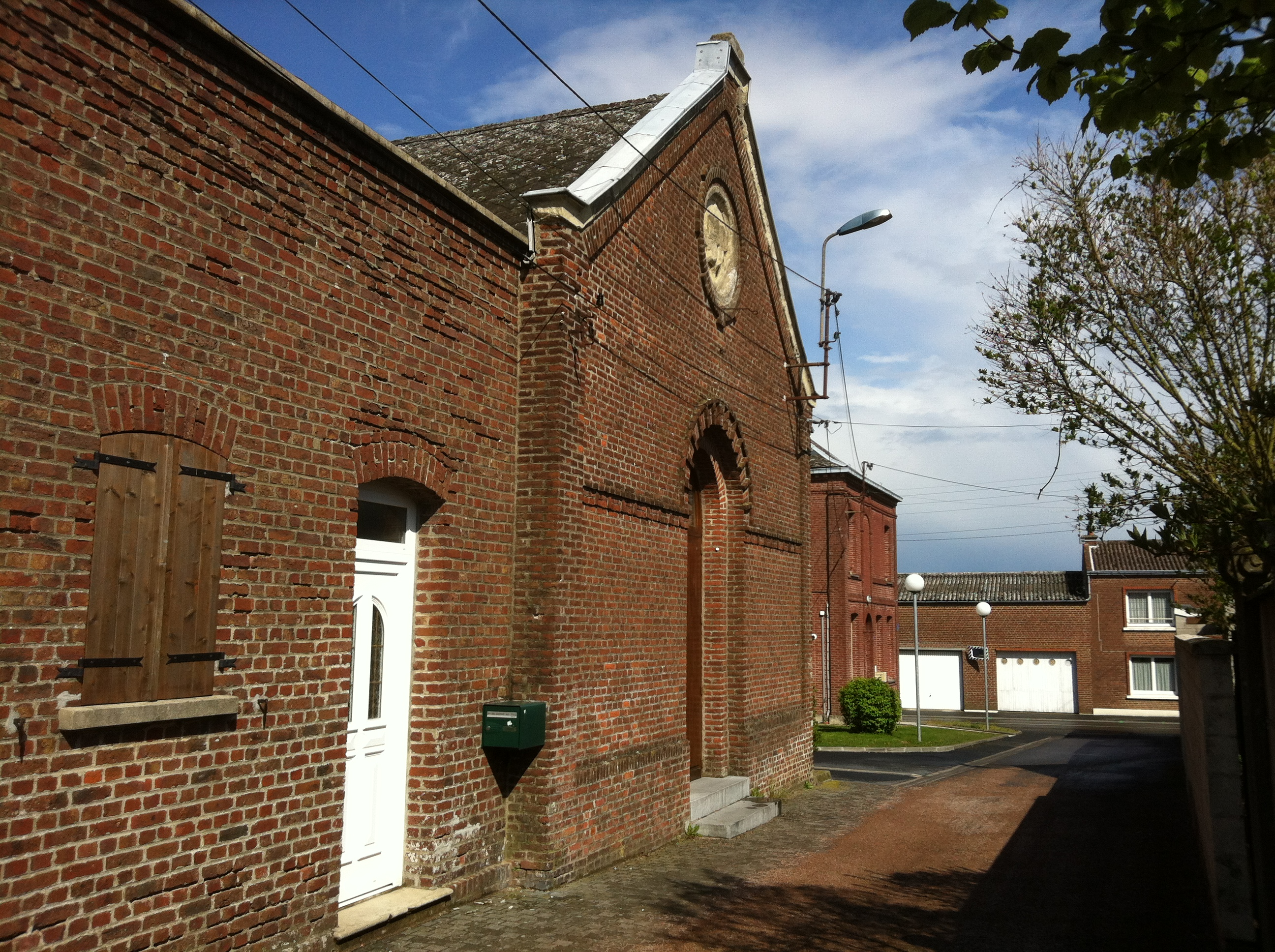 Temple, Bertry